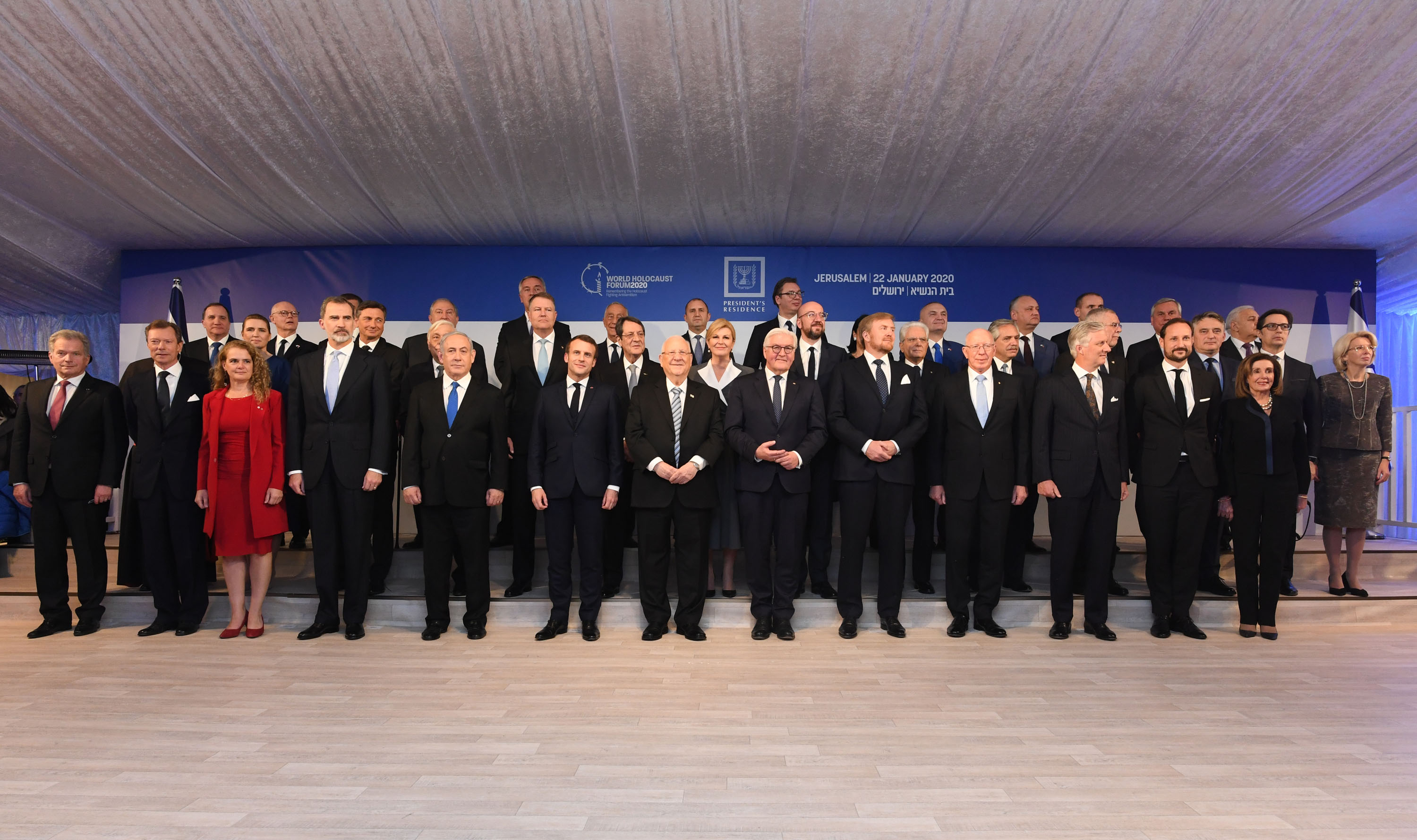 צילום קבוצתי בבית הנשיא בסיום ארוחת הערב הרשמית לראשי מדינות וראשי משלחות מרחבי העולםפורום השואה העולמי החמישיPhoto by Kobi Gideon / GPO